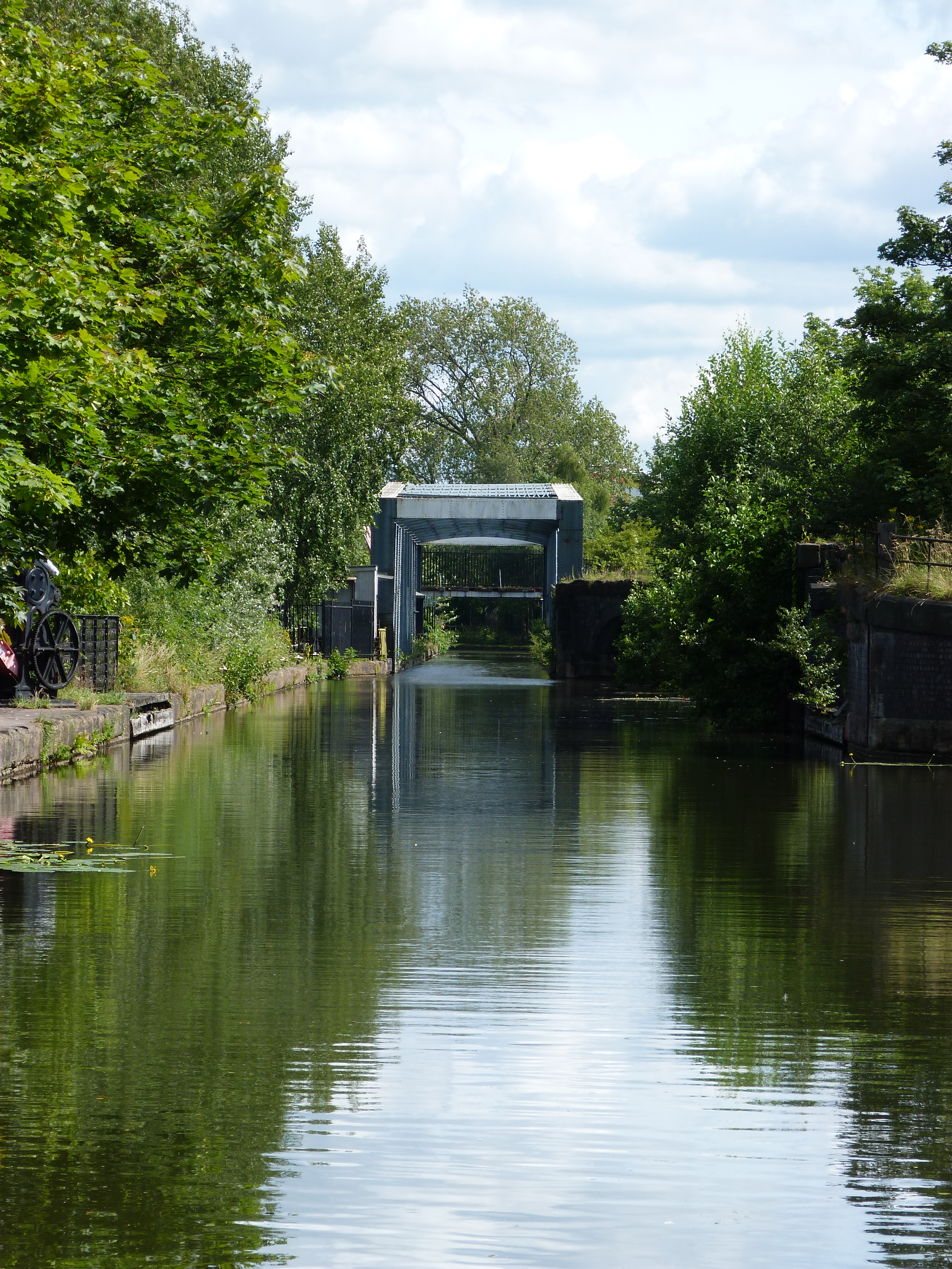 This Aquaduct at Patricroft allows the Bridgewater Canal to cross Barton road on route to the Barton swinging Aquaduct over the Manchester ship Canal.